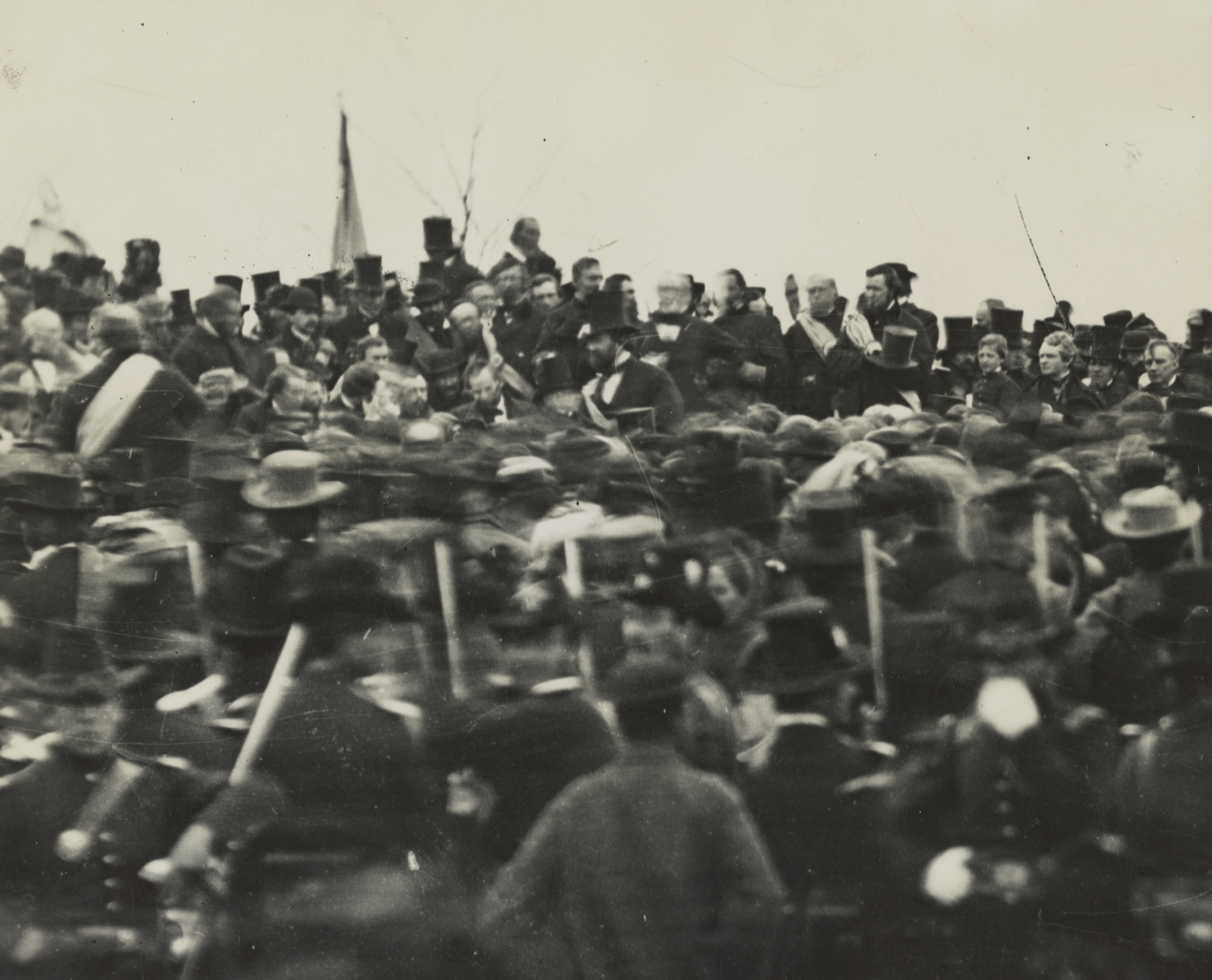 Abraham Lincoln at the dedication of the Soldiers' National Cemetery in Gettysburg, Pennsylvania. Lincoln is slightly left of center, just behind the mass of blurry people, facing the camera, head slightly down and tilted to his right (camera left). On this web page, click on the numeral 3 for the third photo. Mouse over the people around Lincoln and it will identify several other people.